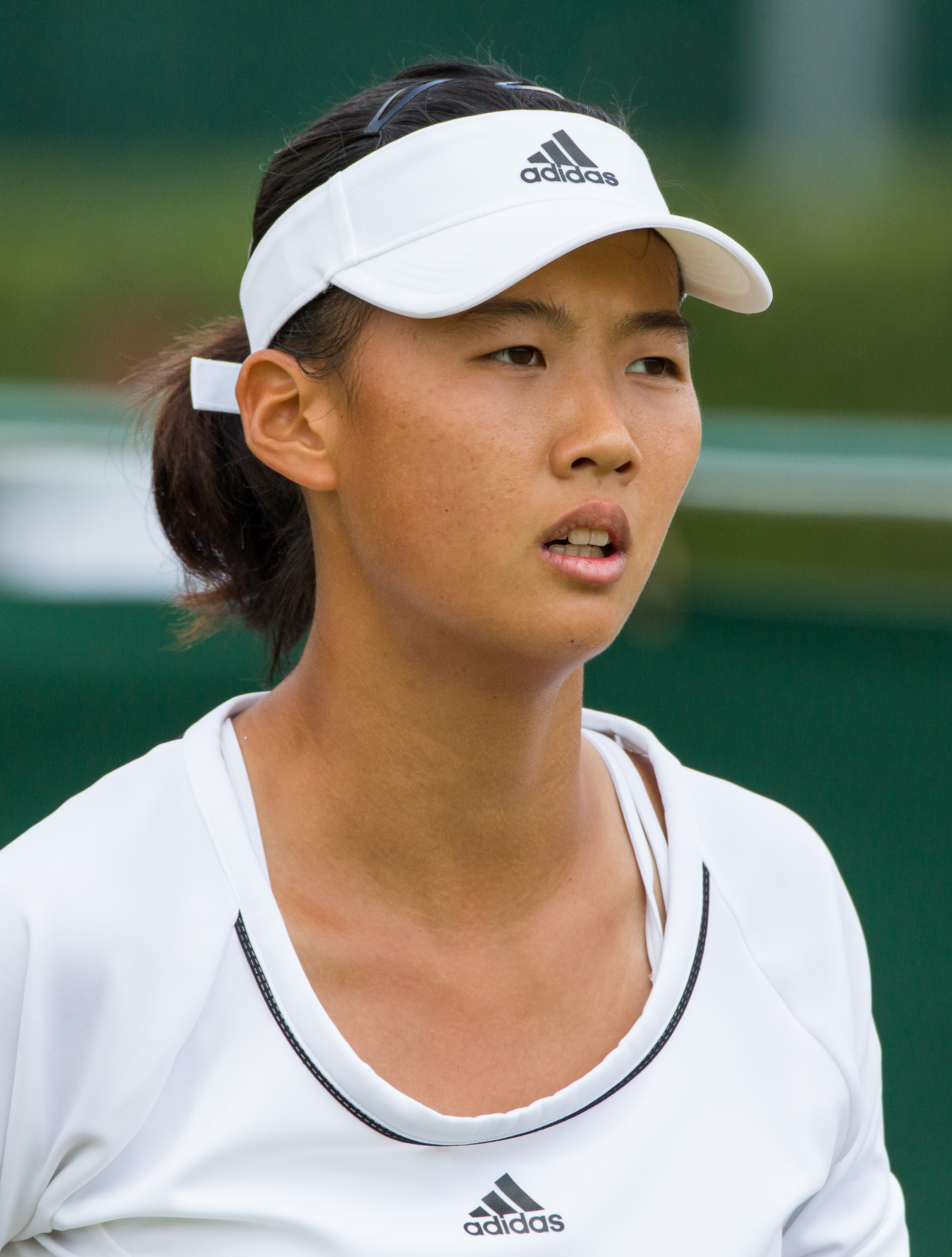 Liu Fangzhou competing in the second round of the 2015 Wimbledon Qualifying Tournament at the Bank of England Sports Grounds in Roehampton, England. The winners of three rounds of competition qualify for the main draw of Wimbledon the following week.